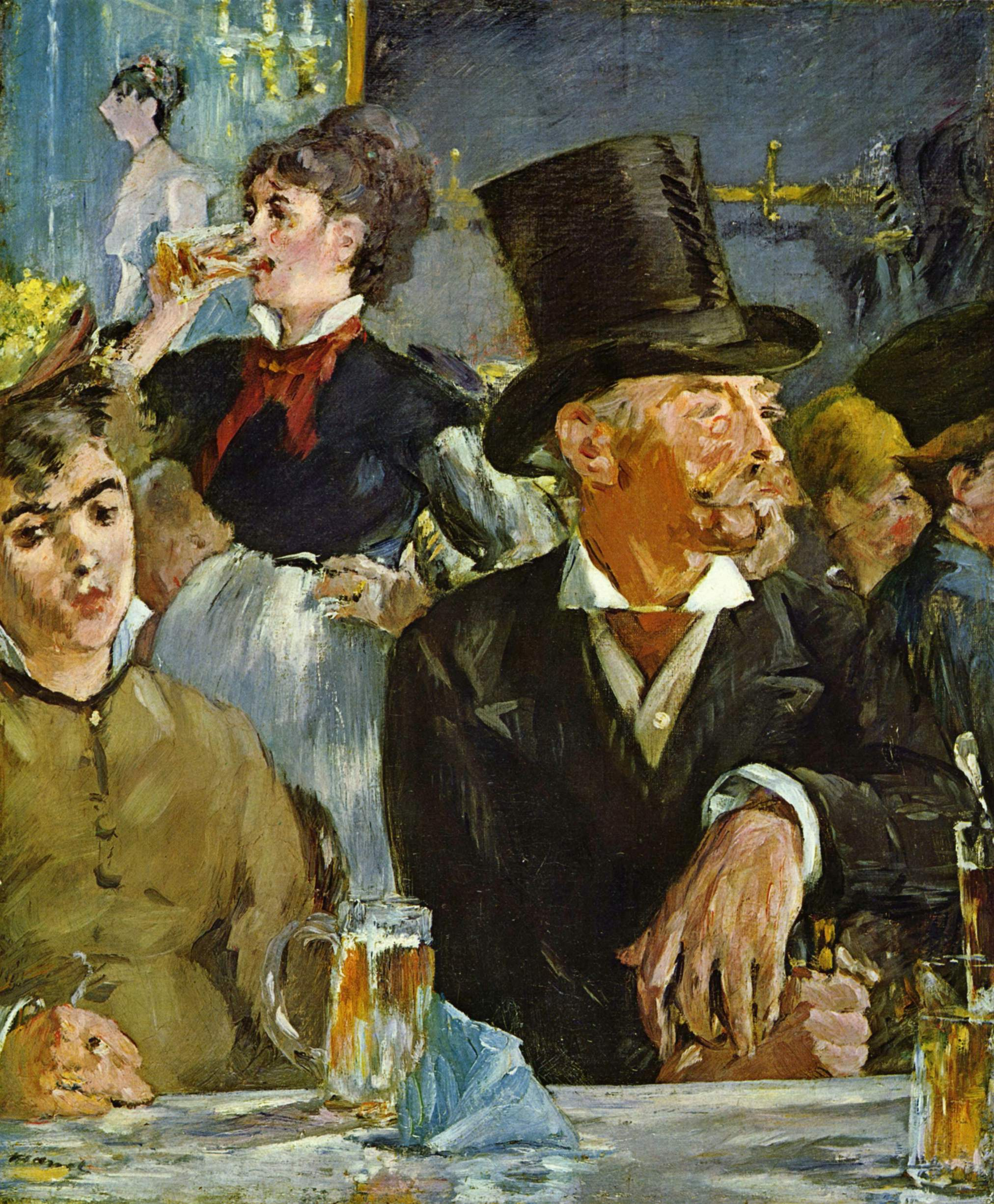 Manet was the quintessential "Painter of Modern Life," a phrase coined by art critic and poet Charles Baudelaire. In 1878-79, he painted a number of scenes set in the Cabaret de Reichshoffen on the Boulevard Rochechouart, where women on the fringes of society freely intermingled with well-heeled gentlemen. Here, Manet captures the kaleidoscopic pleasures of Parisian nightlife. The figures are crowded into the compact space of the canvas, each one seemingly oblivious of the others. When exhibited at La Vie Moderne gallery in 1880, this work was praised by some for its unflinching realism and criticized by others for its apparent crudeness.